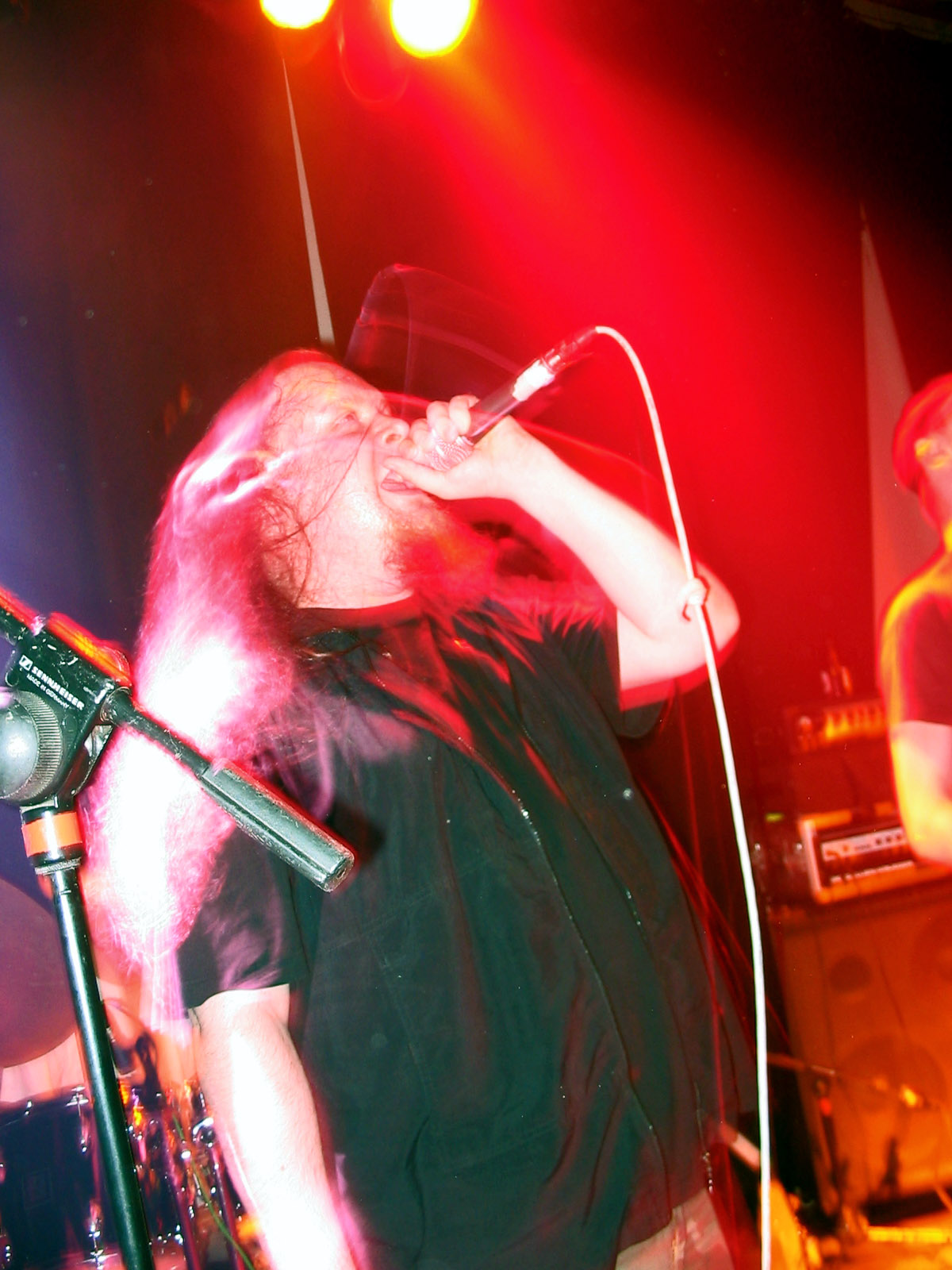 Markus „Bony“ Hoff, member of the German grindcore band "Japanische Kampfhörspiele", at a concert in Wunstorf, Germany on September 28th 2004